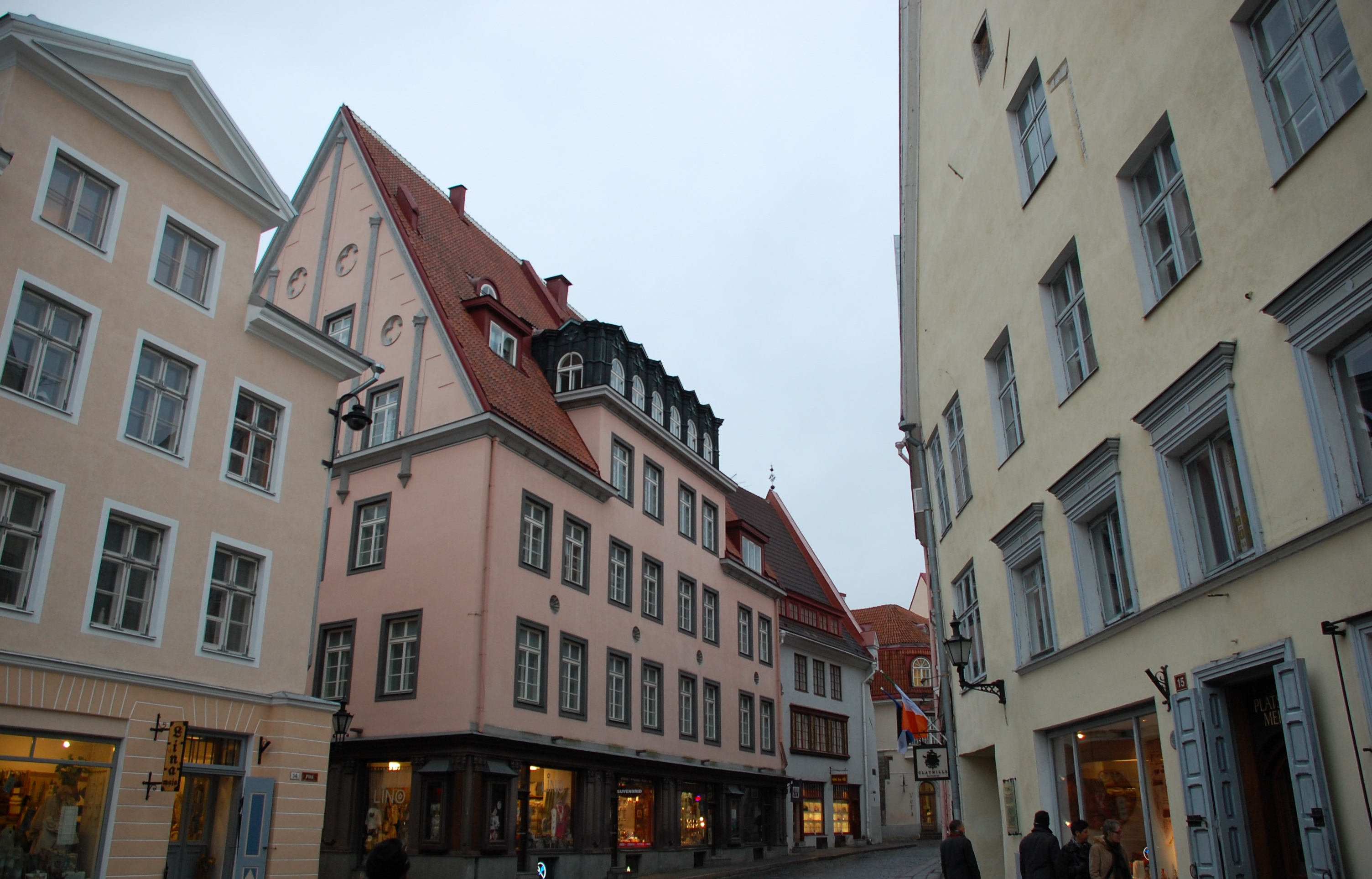 Tallinn, Estonia